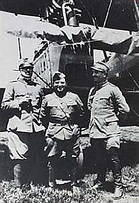 Fiorello Herny LaGuardia during the first world war. He's between two italian officers, in front of a Caproni Ca.44 (Ca.5) bomber